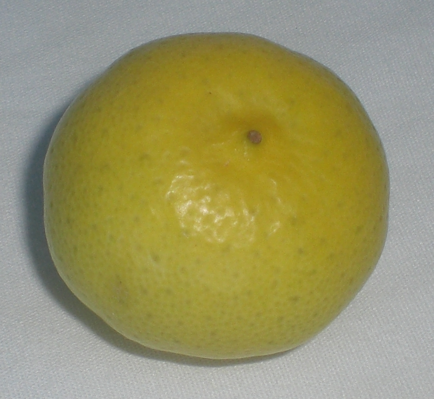 Digital photo taken by Marc Averette. Tree-ripened key lime. Color is a bright yellow, unlike the more common green Persian limes.